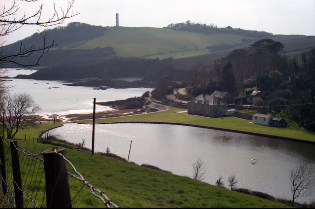 Artificial lake, Polridmouth